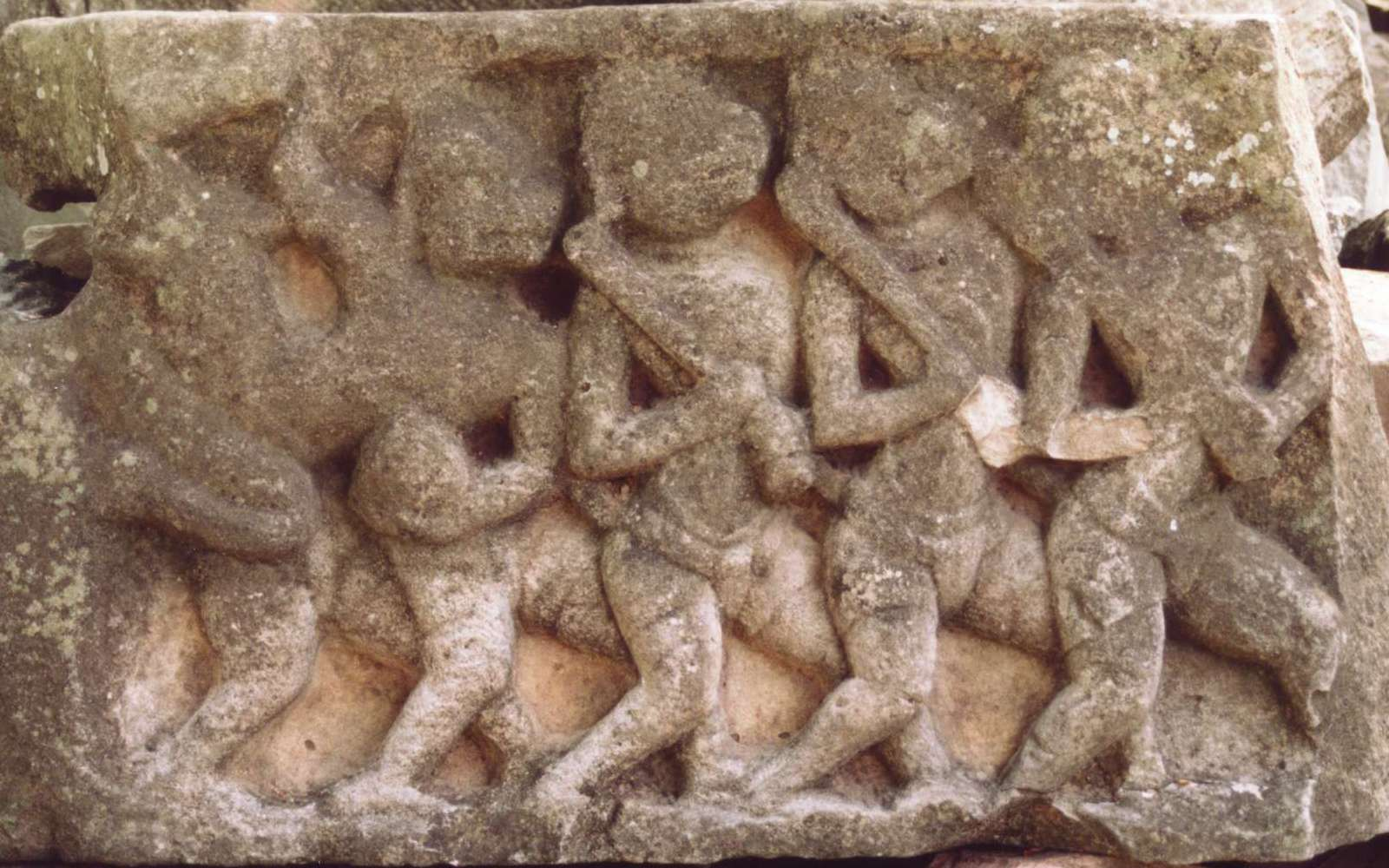 Weathered lintel stone showing monkey warriors from the Ramayana. Stone was located at a scrape stone storage in the northwestern part of the Phimai historical park, Nakhon Ratchasima, Thailand. Photo taken by User:Ahoerstemeier on July 11, 2003.